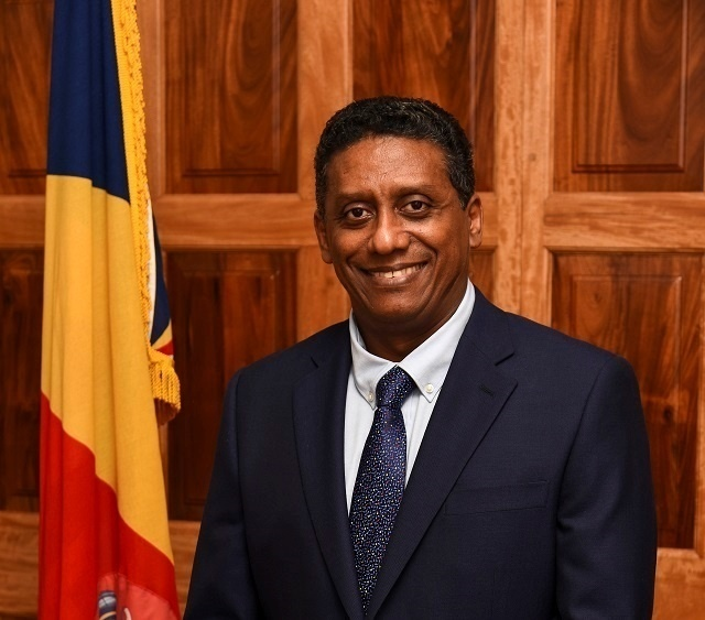 Official photo of Danny Faure, President of Seychelles.